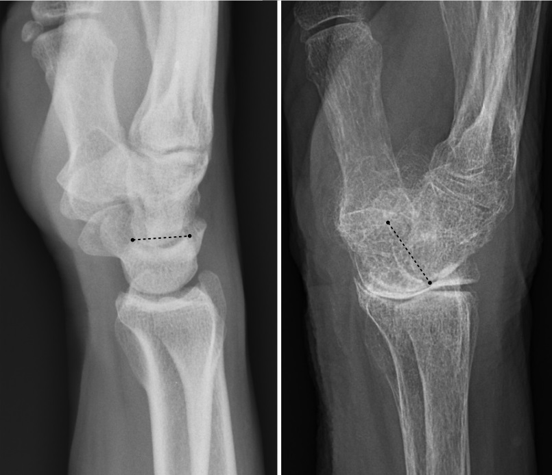 Projectional radiographs of a normal wrist (left image) and one (right image) with a dorsally tilted wrist joint due to wrist osteoarthritis, as well as osteoporosis. The the angle of the distal surface of the lunate bone is annotated.